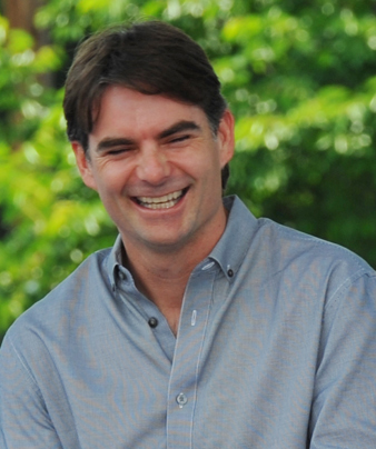 Jeff Gordon tersenyum dalam acara Jeff Gordon Expressway Dedication Ceremony.